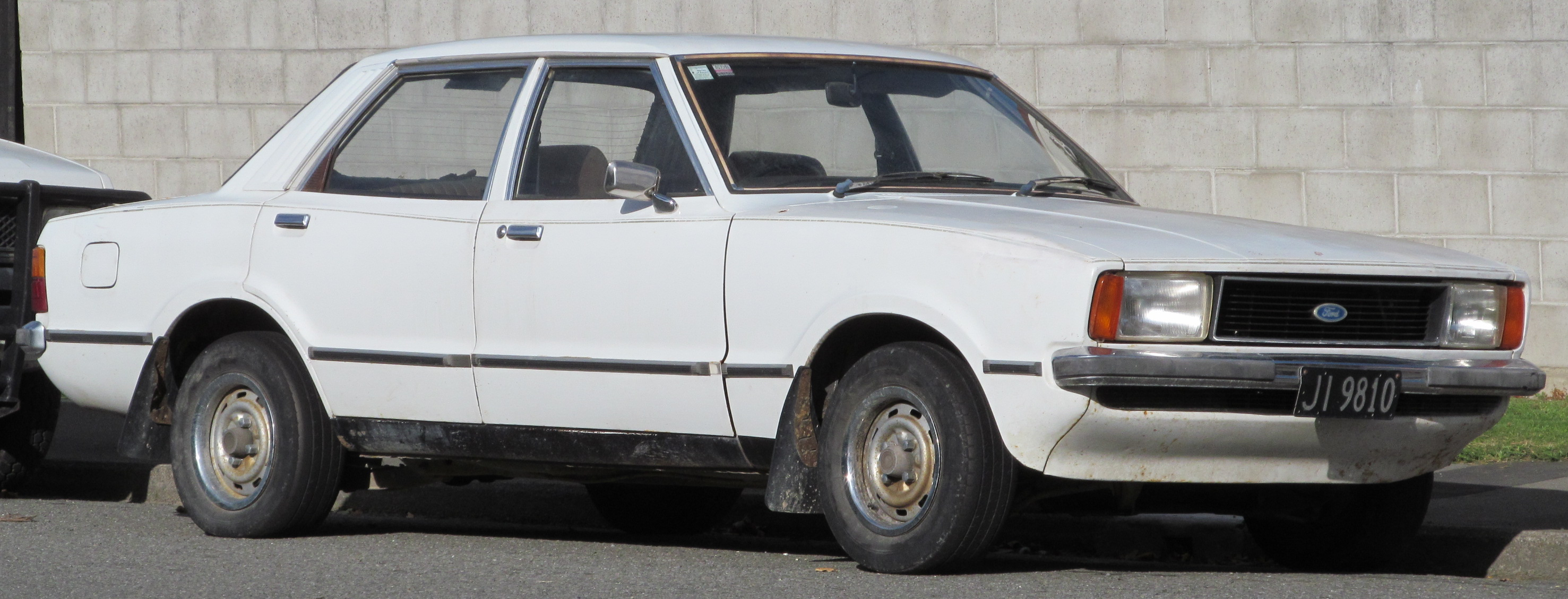 JI9810 This was a real timewarp Cortina - the sort you'd see trundling around the streets in 1987 or thereabouts! What's even more pleasing about this is that it's a Mk4, probably the rarest of all Cortinas in NZ. There was another rare vehicle parked just a hundred metres or so up the road, but that's coming soon...